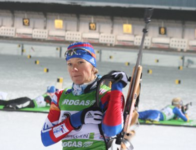 Olga Zaitseva, russian biathlonist